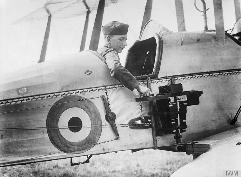 A sergeant of the Royal Flying Corps demonstrates a C type aerial reconnaissance camera fixed to the fuselage of a BE2c aircraft, 1916. A sergeant of the Royal Flying Corps demonstrates a C type aerial reconnaissance camera fixed to the fuselage of a BE2c aircraft, 1916.